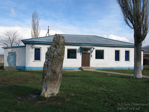 Skela menhir in Baydary volley. Crimea, Ukraine.